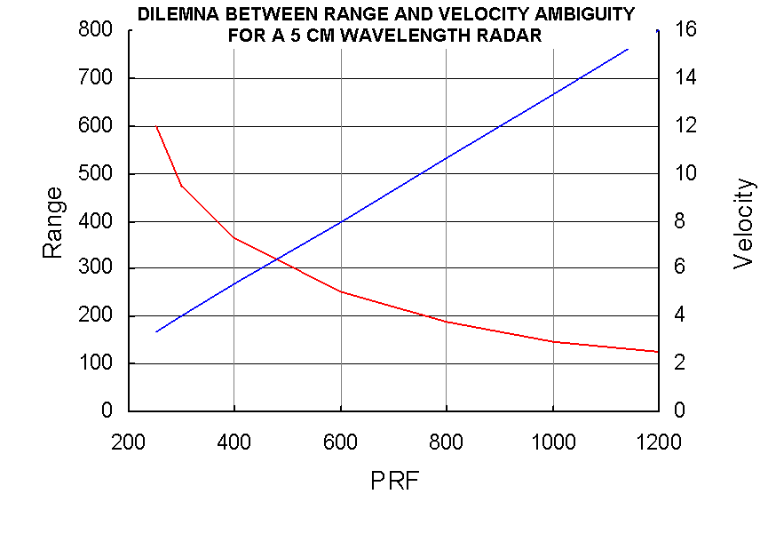 Maximum range from reflectivity (red) and unambiguous Doppler velocity range (blue) with pulse repetition rate. In a Doppler radar, the pulse repetition rate has an inverse effect on maximum unambiguous range and velocity. This dilemma leads the user to make a choice of PRF to maximize the range and the velocity usefulness. Range in km, velocity resolution in m/s and PRF in Hz.